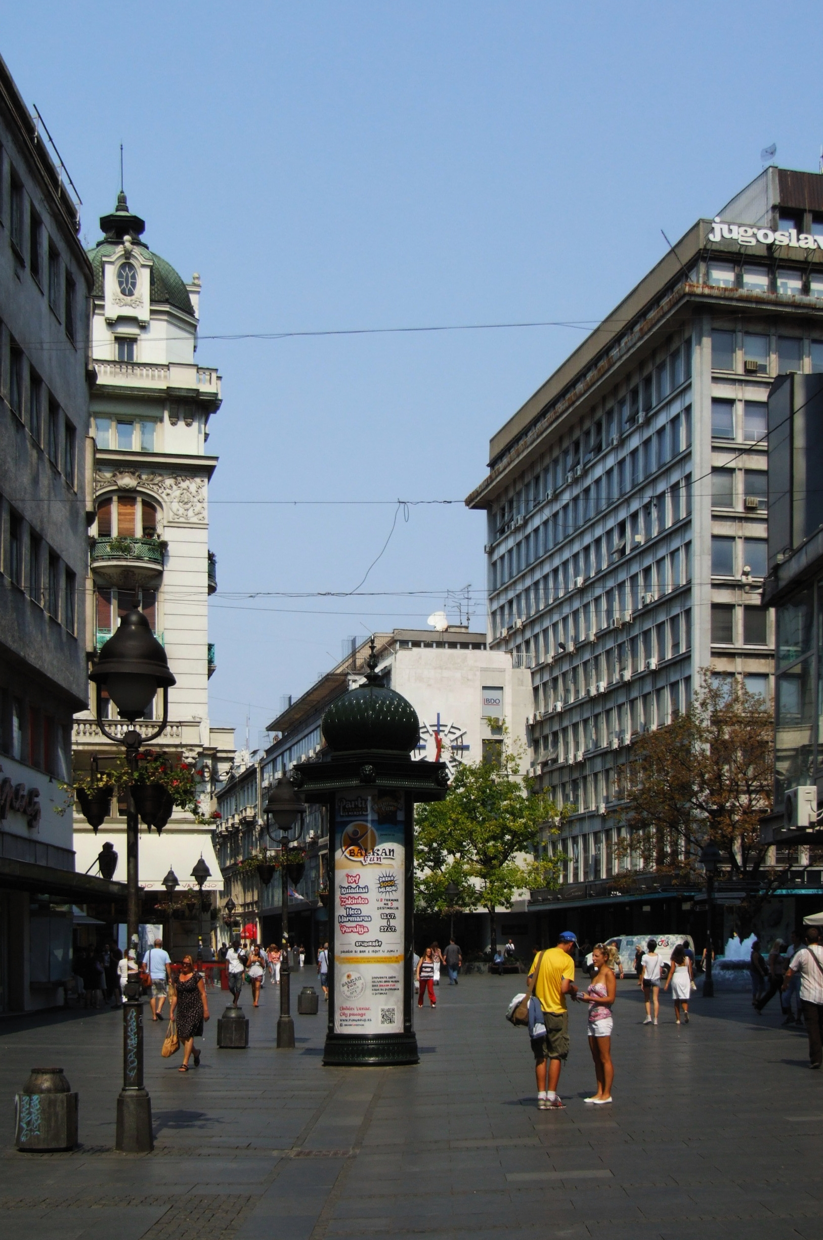 Knez Mihailova street, Belgrade